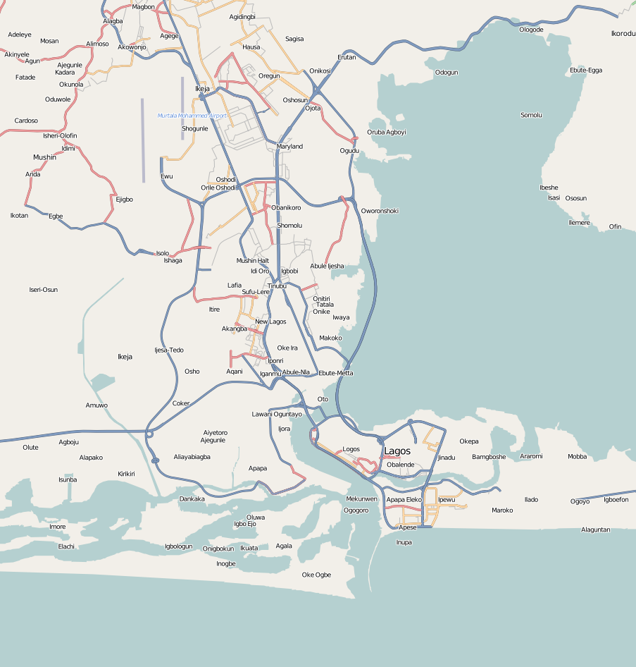 Map of Lagos, Nigeria Geographic limits of the map: N:6.6281° S:6.3679° W: 3.2579° E: 3.5078°